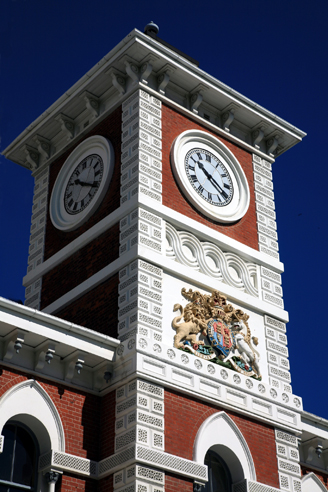 The Clocktower of the Chief Post Office in Cathedral Square in Christchurch.